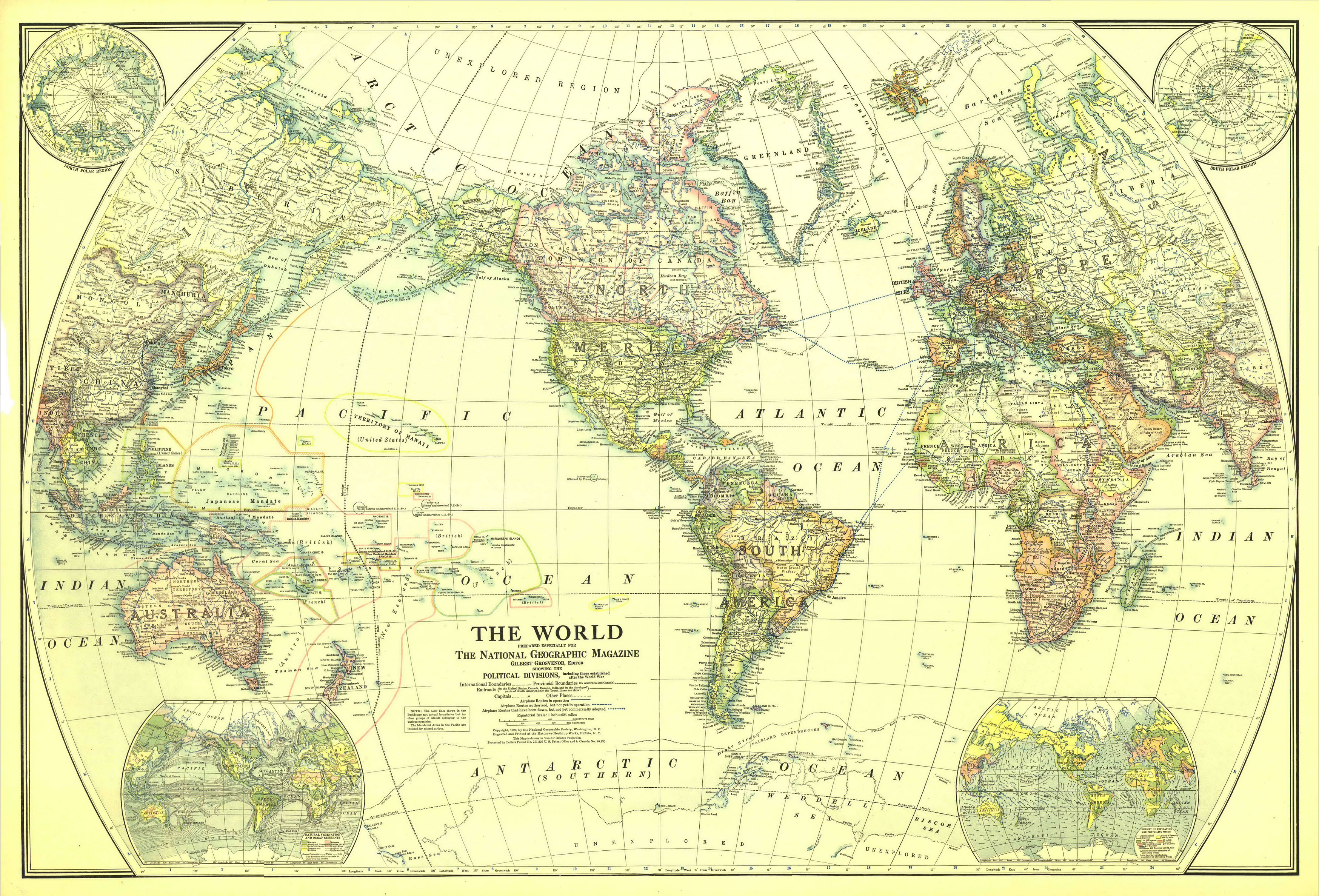 Map of the World in 1922 Drawn with Van der Grinten projection. Scale on equator 1 inch = 625 miles (1 : 39,600,000) Extra maps in the corners: North and South polar regions, natural vegetation and ocean currents, density of population and prevailing winds.